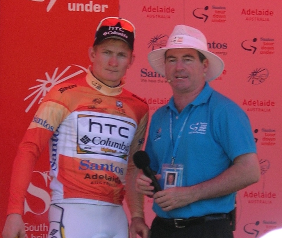 Team HTC-Columbia rider André Greipel after receiving the ochre general classification jersey on the podium after Stage 3 of the 2010 Tour Down Under into Stirling.